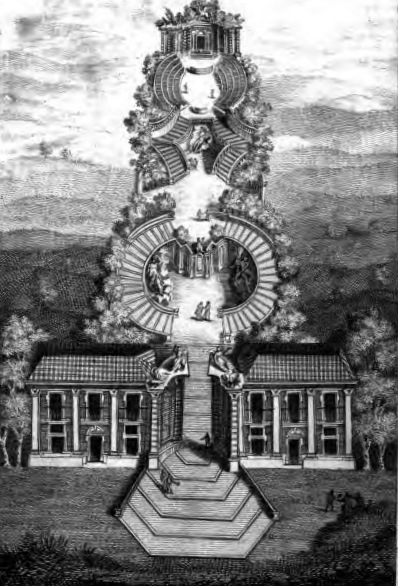 Plan of Bosco Parrasio, the headquarters of Accademia dell' Arcadia in Rome